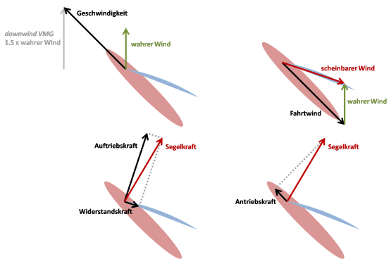 Vector diagram for a sail craft going faster than the wind